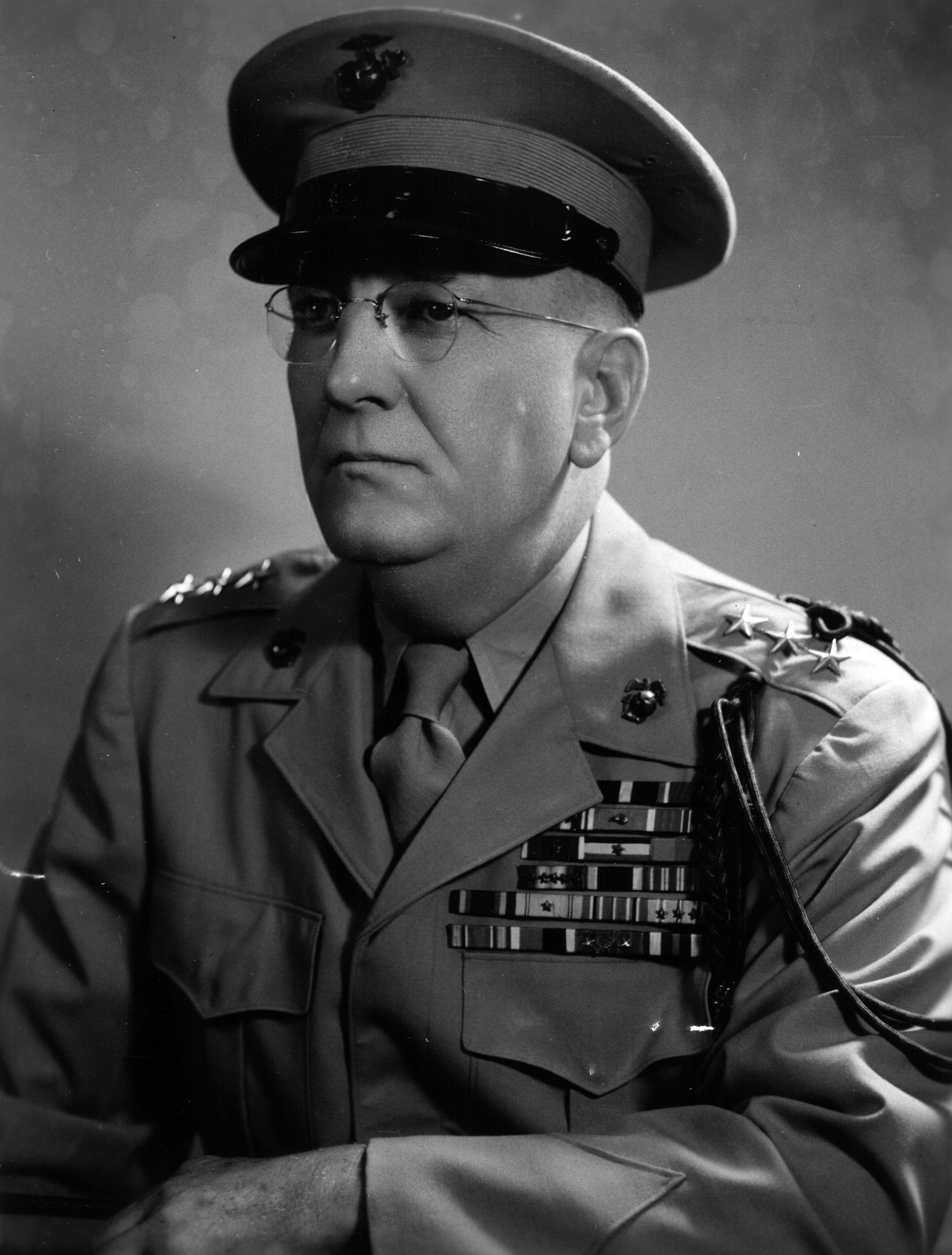 LeRoy Philip Hunt (March 17, 1892 – February 8, 1968) was a highly decorated officer in the United States Marine Corps with the rank of General. A veteran of World War I, he was decorated the Navy Cross and Army Distinguished Service Cross, the United States military's two second-highest decorations awarded for valor in combat.